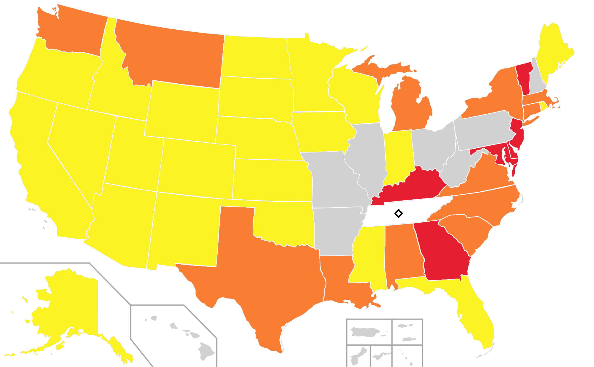 Yellow - states with federally recognized tribal entities Red - states with state recognized tribal entities Orange - states with both federal and state recognized tribal entities White - the legal status of tribal recognition in Tennessee is uncertain as of this writing